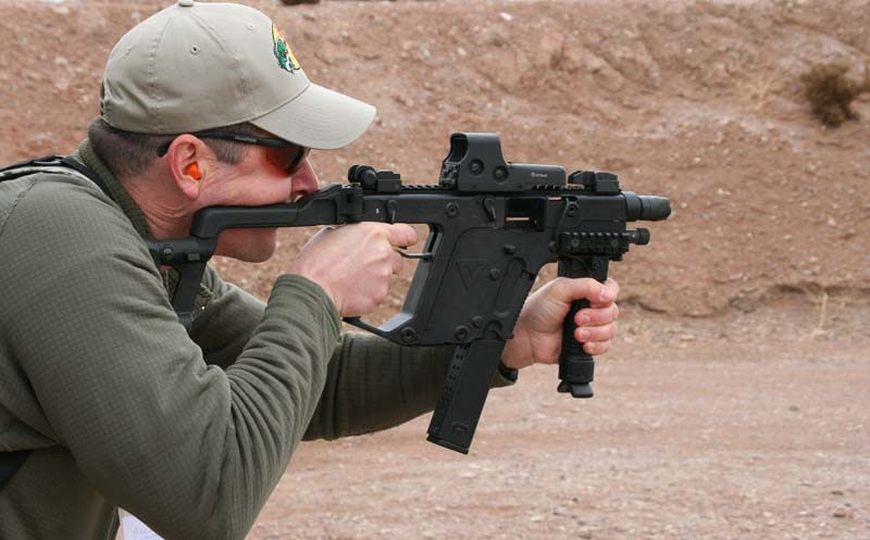 Image via This is a photo of shooting a new Kriss .45 ACP submachine gun (SMG) on display. This photo was taken at the Media Day at the Range event. The 2010 SHOT Show was held in Las Vegas, NV. The event is a trade show held annually to support the gun industry and is sponsored by the National Shooting Sports Foundation (NSSF). It is the largest gun show in the United States.